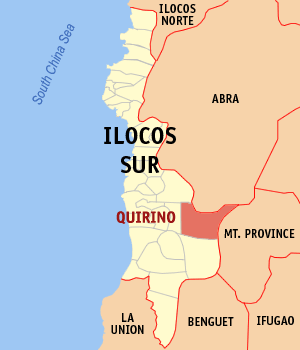 Map of Ilocos Sur showing the location of Quirino